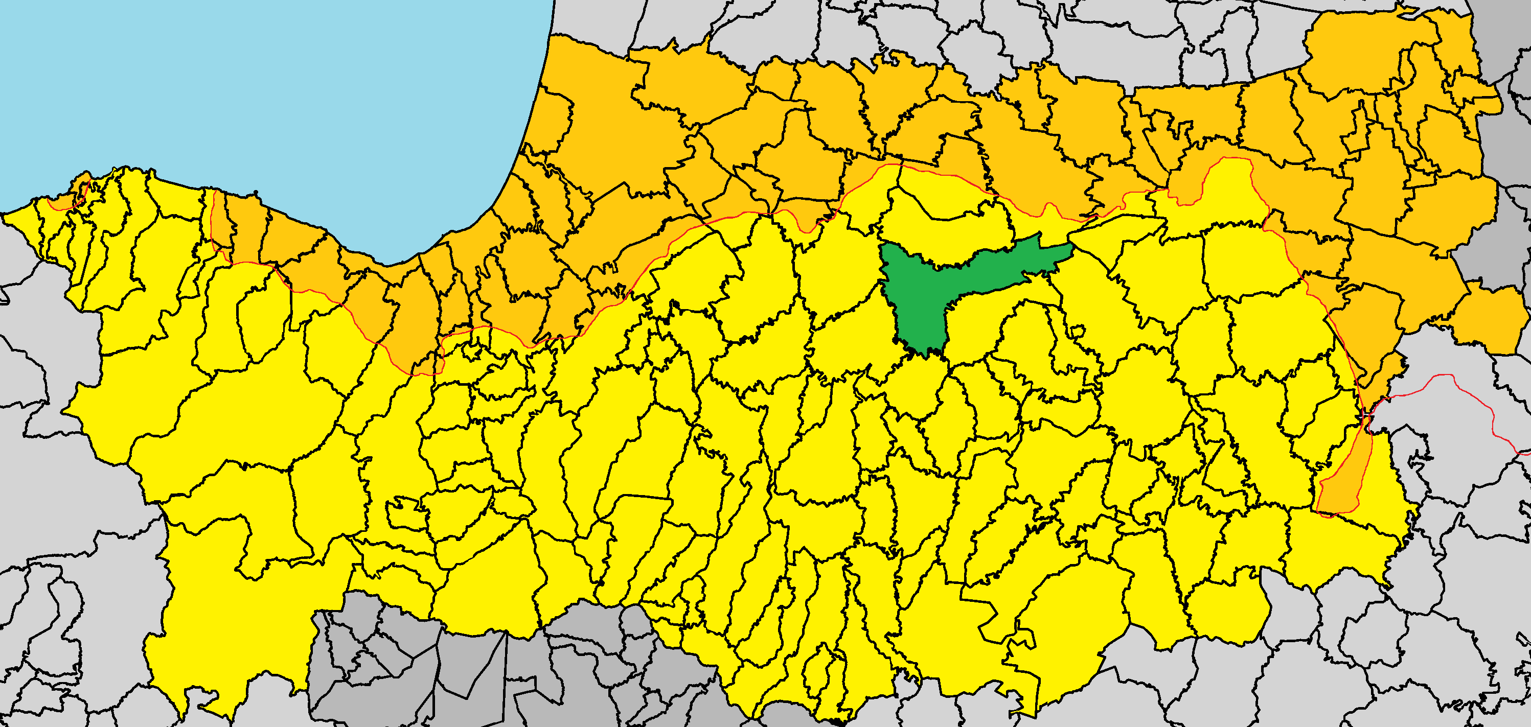 Paliometocho in Nicosia District.